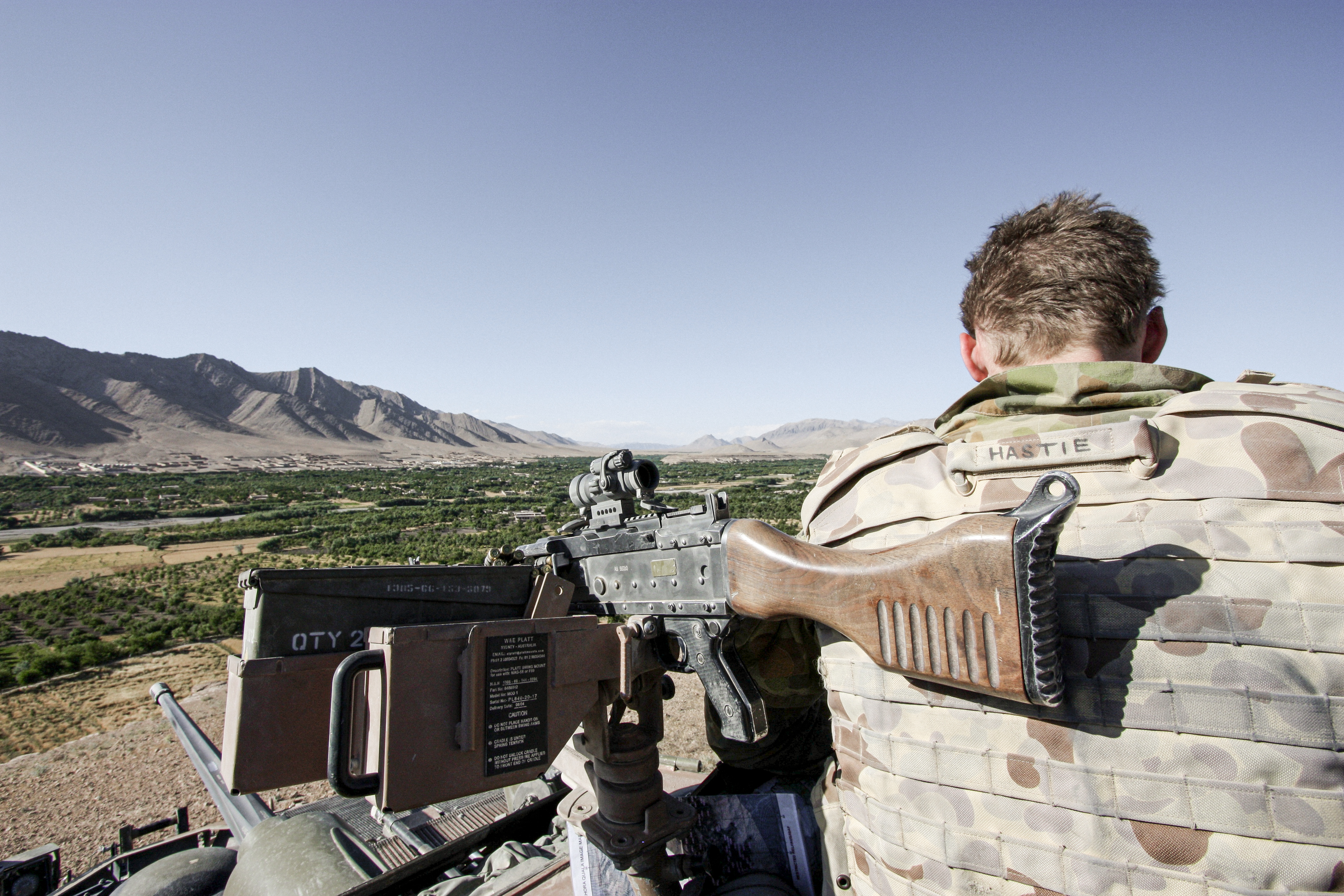 chora